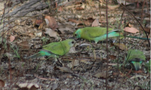 Female golden shouldered parrots